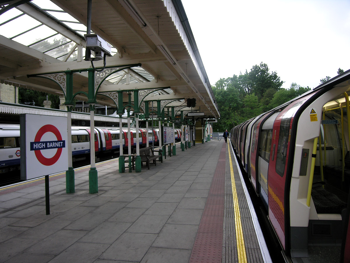 High Barnet tube station